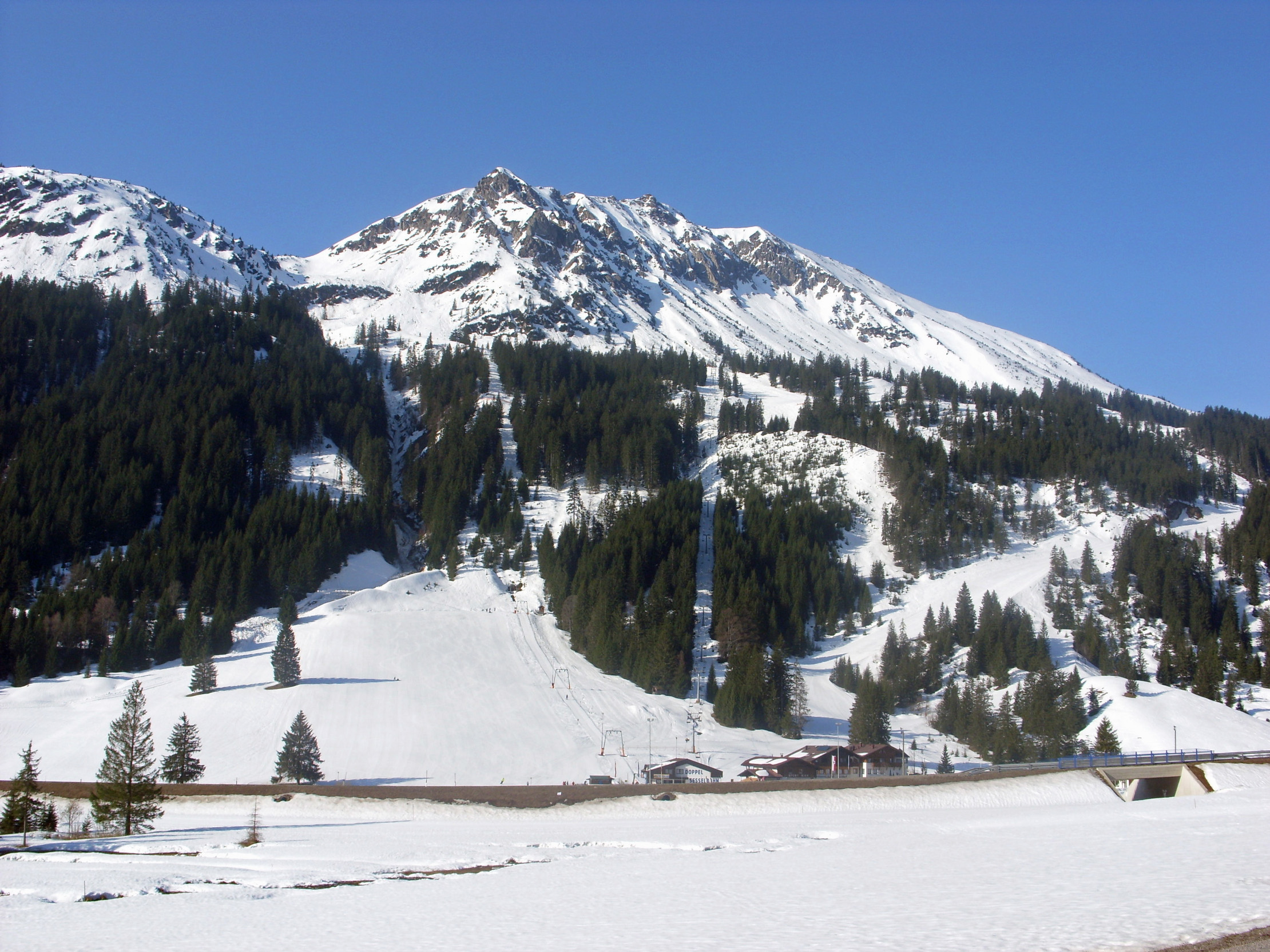 The lift and the mountain "Krinnenspitze" (2.000 meters high) in the Austrian town Nesselwängle